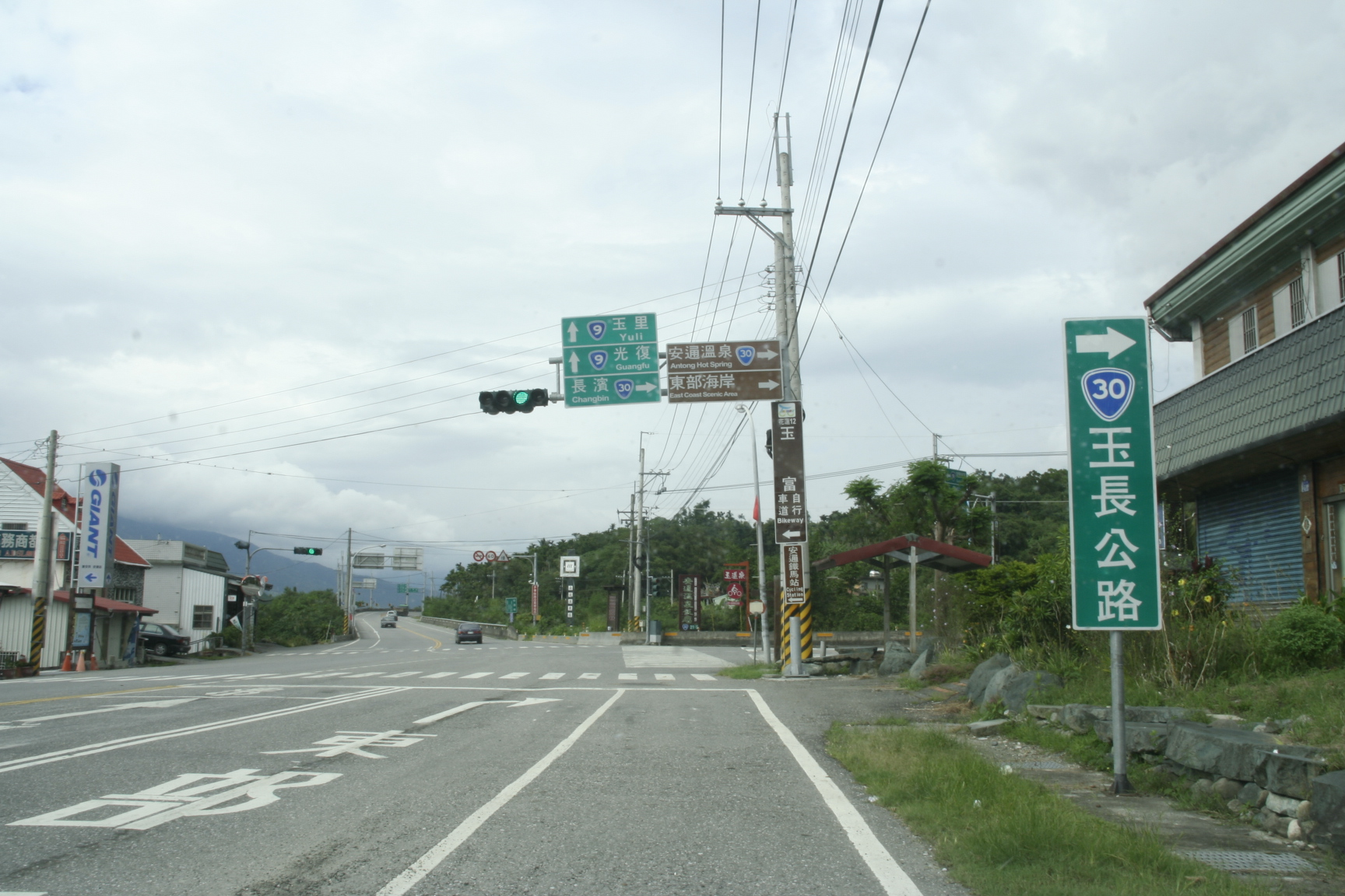 Yuchang Highway's starting point at the intersection of Provincial Highway 9, Yuli, Taiwan.